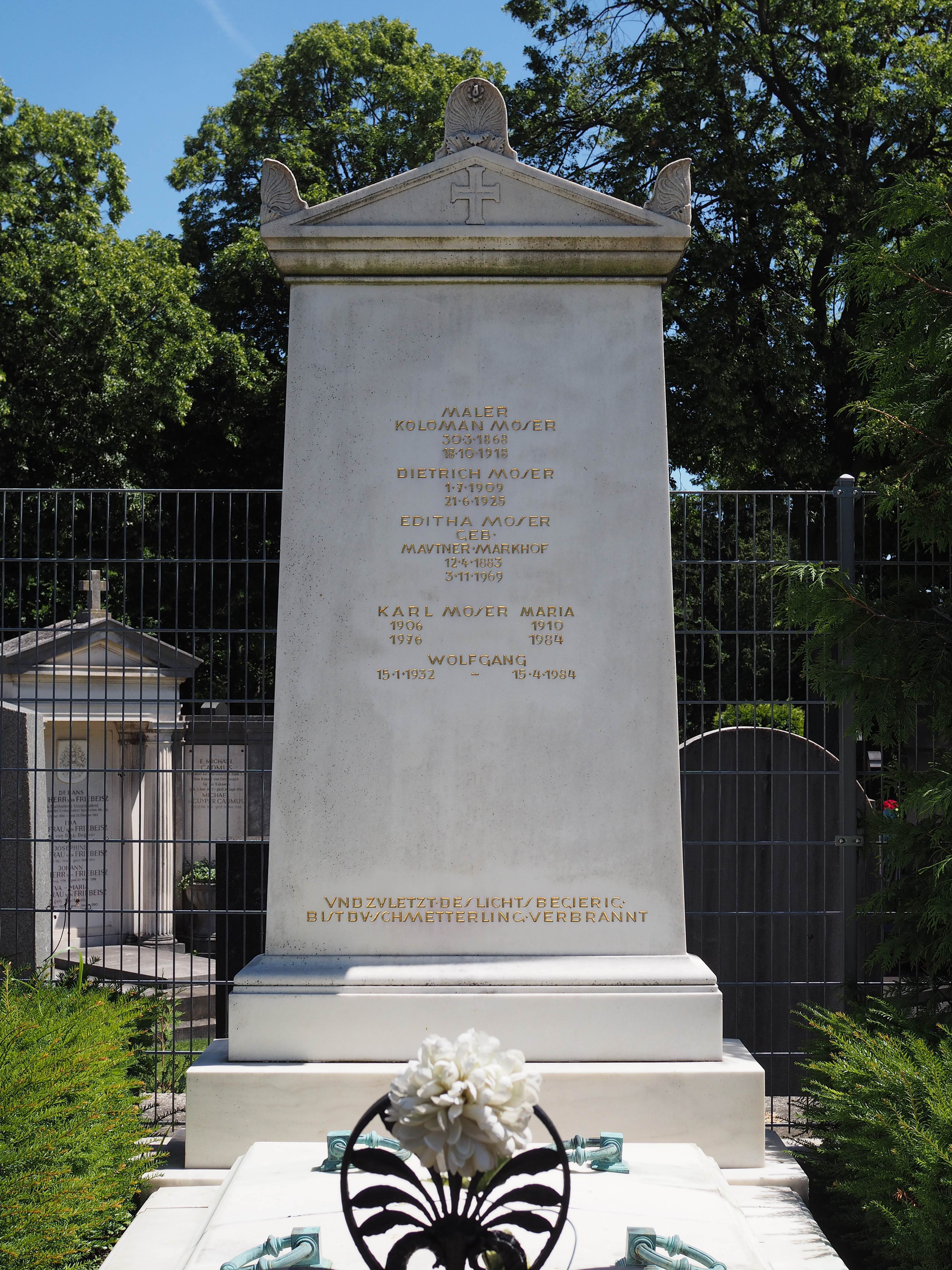 Grave of the painter Koloman (Kolo) Moser, his wife Editha Moser (née Mautner-Markhof; graphic artist) and other family members. Hietzing Cemetery, 1130 Vienna